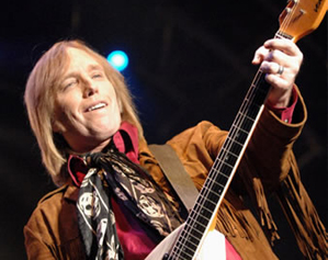 Tom Petty at Vegoose - camtin 16:42, 2 March 2007 (UTC)